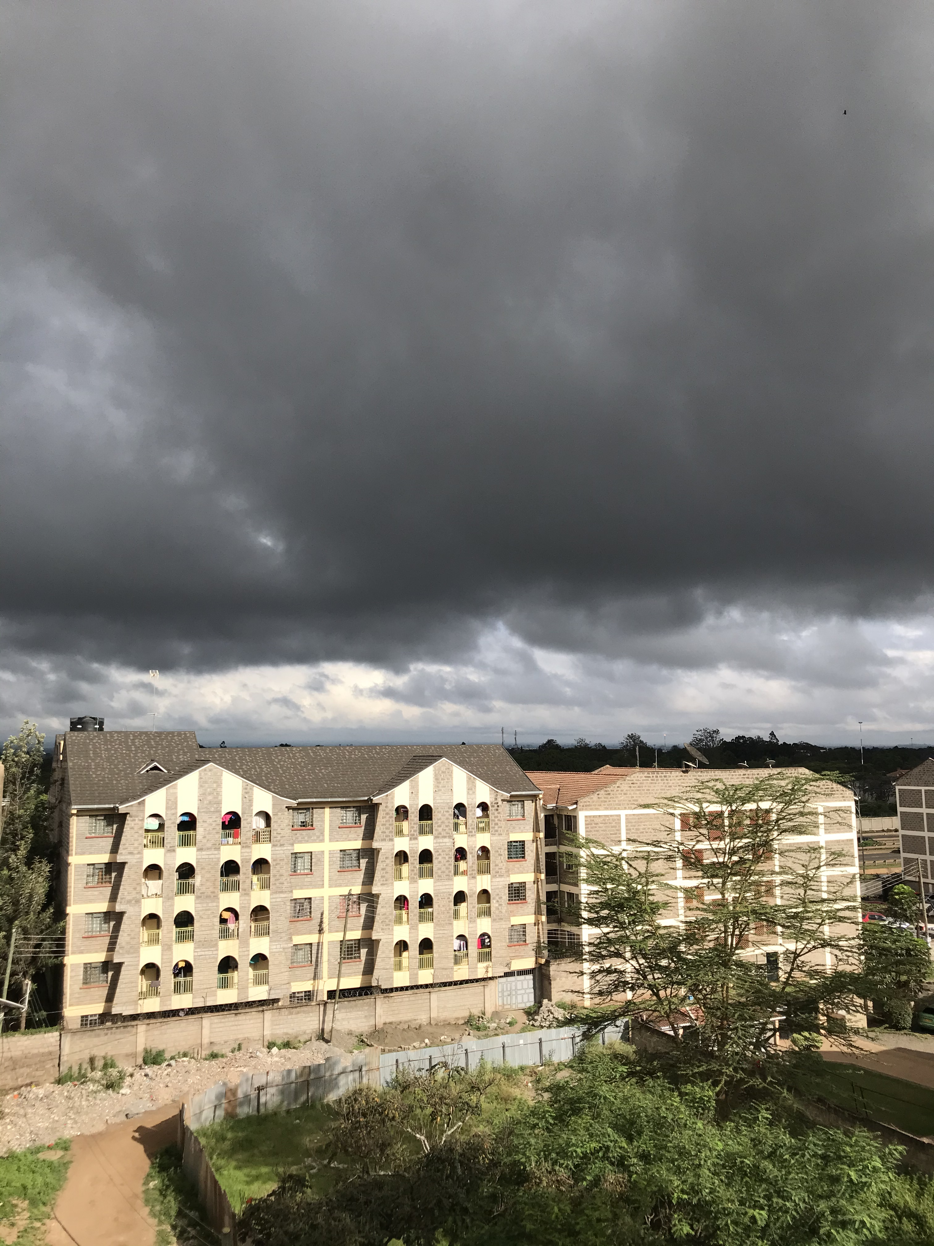 This is an image with the theme "Africa on the Move or Transport" from: Kenya